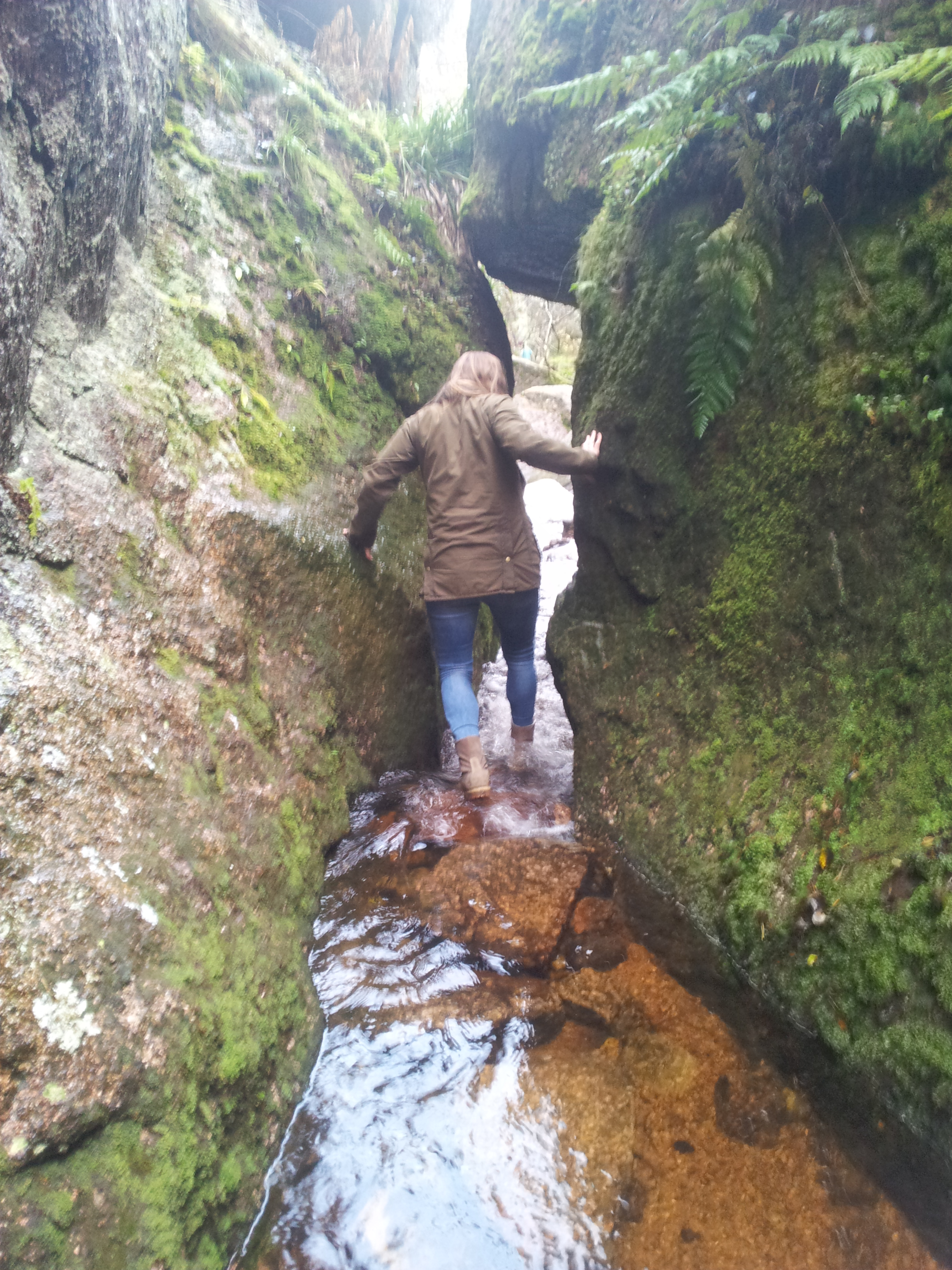 Visitor leaving the vat during a period of high water.